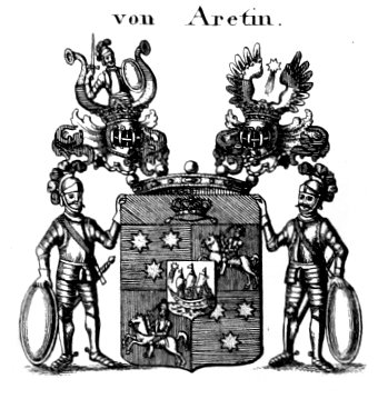 Coat of arms of the Barons of Aretin